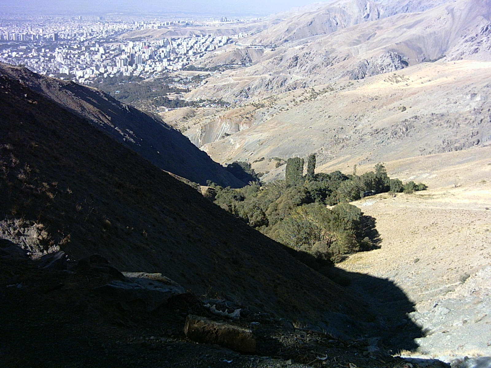 Vezbad Golabdare Valley, Tehran, Iran